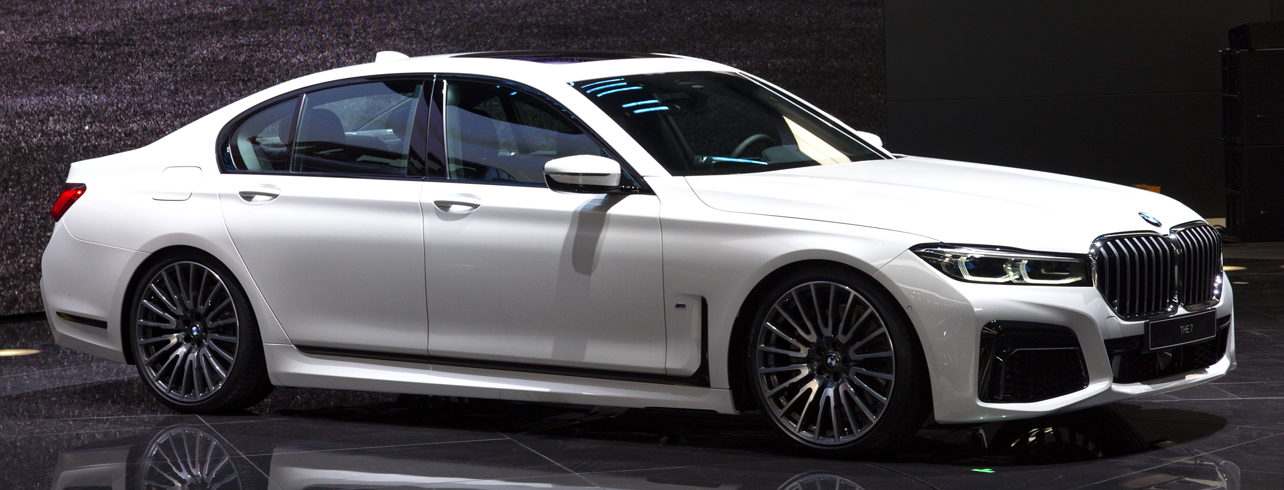 BMW G11 (Facelift) at Geneva Motor Show 2019